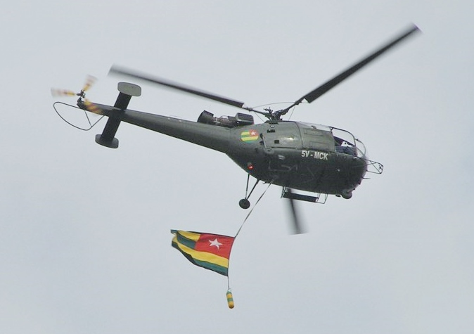 Togolese Air Force Aérospatiale SA-316B Alouette III (5V-MCK) in flight over Lome, during celebrations for the anniversary of the 1986 failed attack on Lomé.